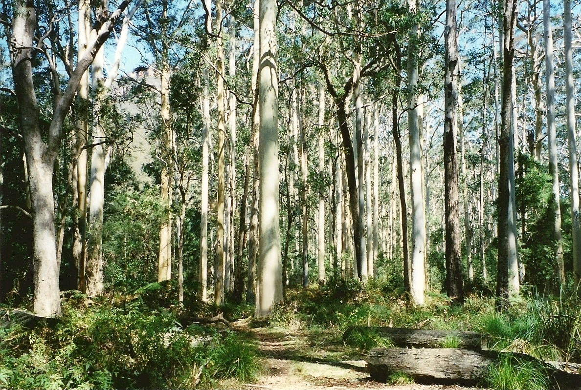 Blue Gum Forest, Blue Mountains National Park (NSW). Eucalyptus deanei trees.